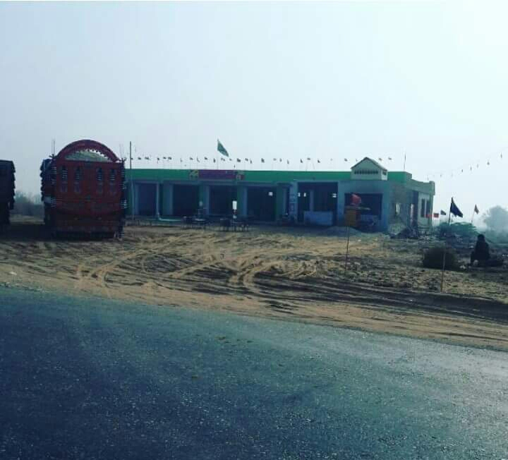 I also Uploaded this Photo on Botala Facebook Page & on website